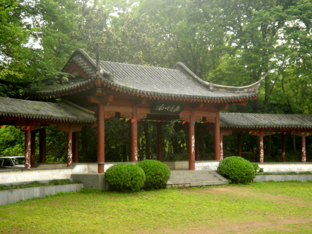 Classical buildings in the Mochou Lake, Nanjing